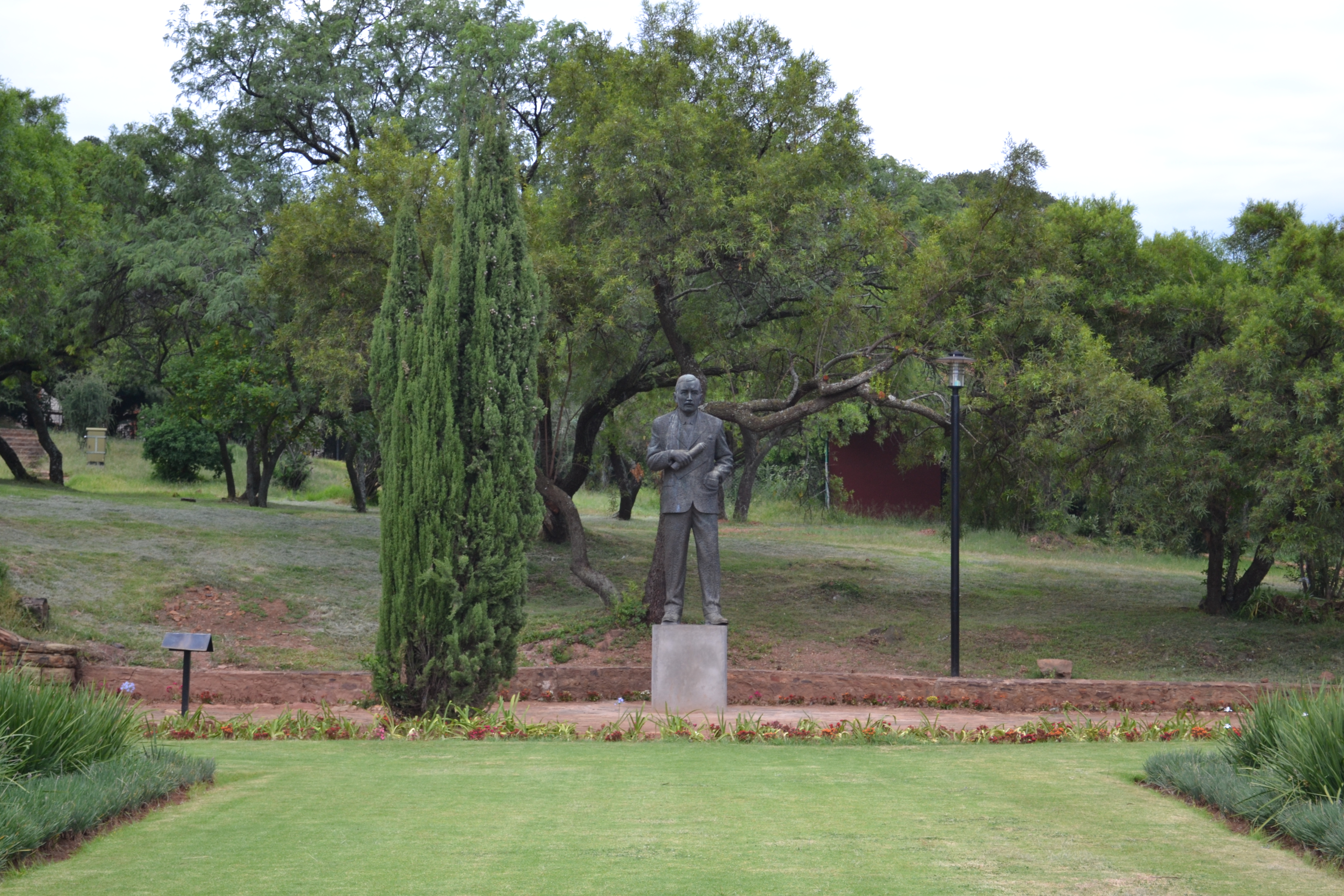 Union Building Meintjieskop, Pretoria South Africa This media shows a South African Protected Site with SAHRA file reference 9/2/258/0067.